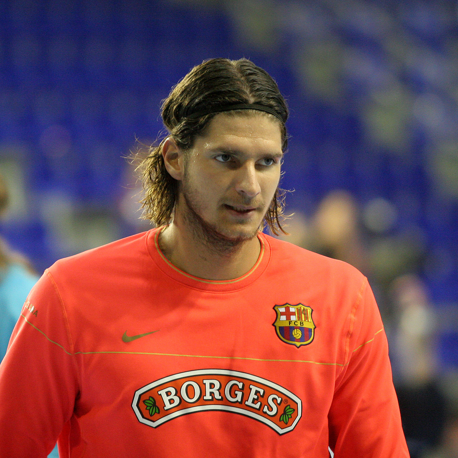 László Nagy, Hungarian handball player on October 12th, 2008 in Barcelona (Palau Blaugrana) after the Champions League game FC Barcelona Borges - H.C. Metalurg Skopje